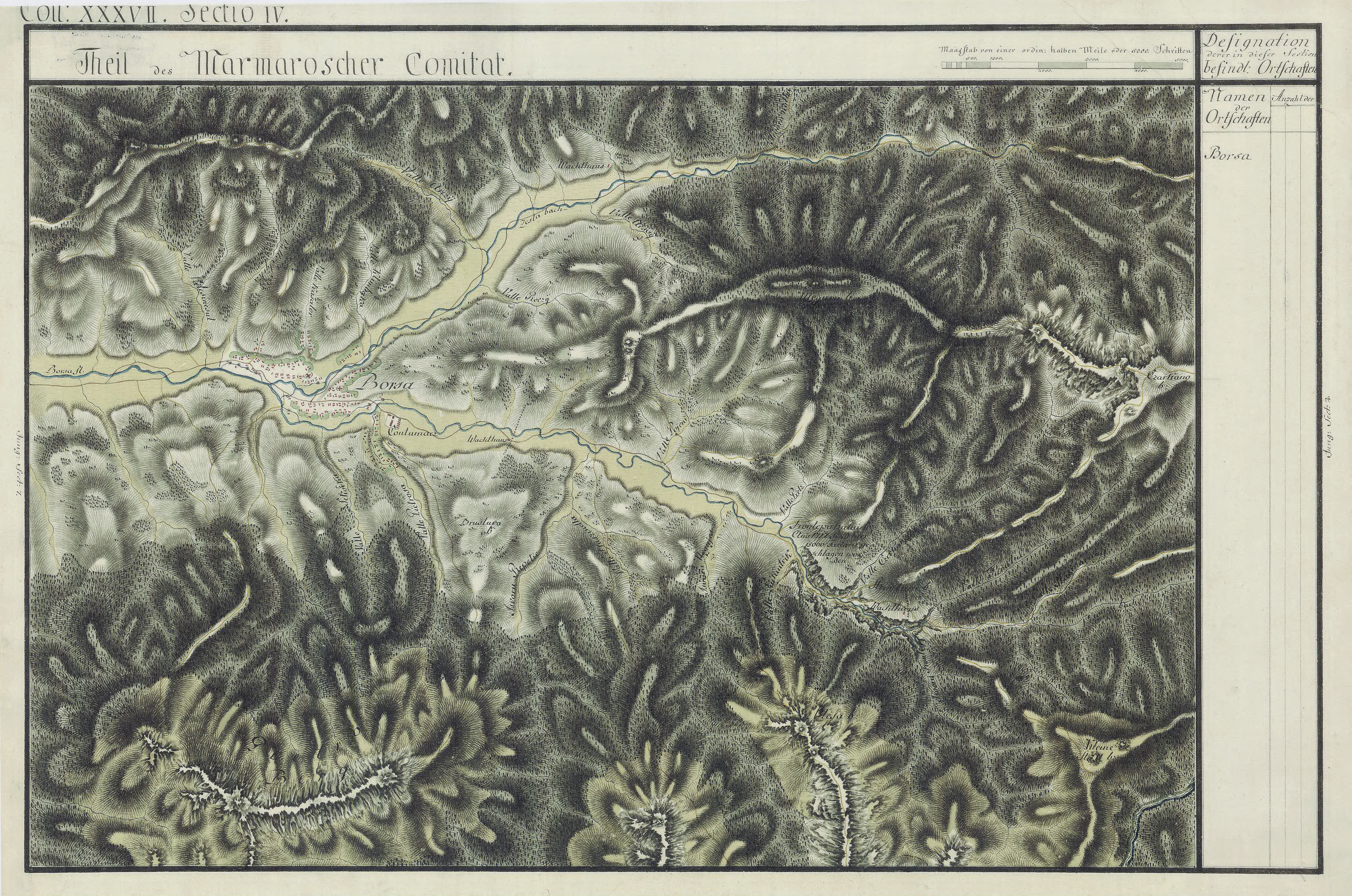 Maramureş County, 1769-1773. Josephinische Landesaufnahme pg.37-04